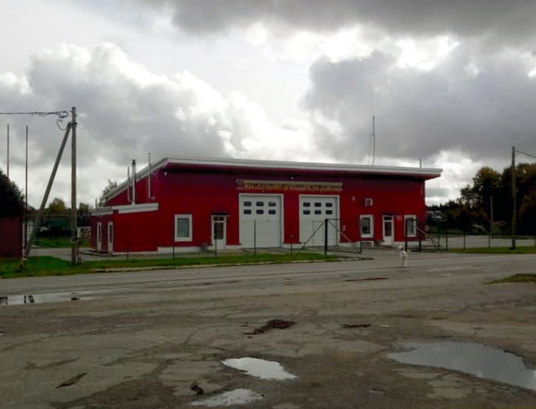 Posyolok Zaborye (Boksitogorskii rayon Leningradskoi oblasti) Pozharnaia chast